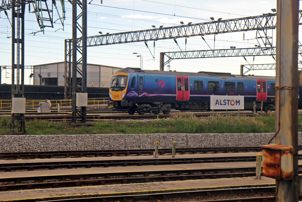 First TransPennine Class 185, 185121, Alstom train depot, Wavertree